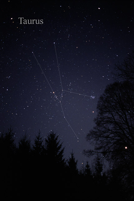 Photography of the constellation Taurus, the bull